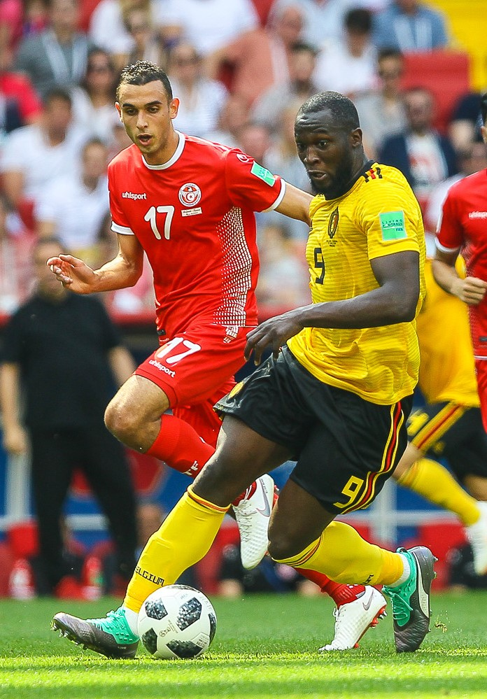 Romelu Lukaku, Ellyes Skhiri